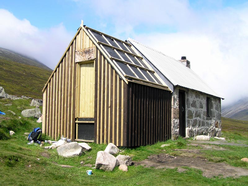 The Corrour Bothy showing the 'toilet extension' under construction